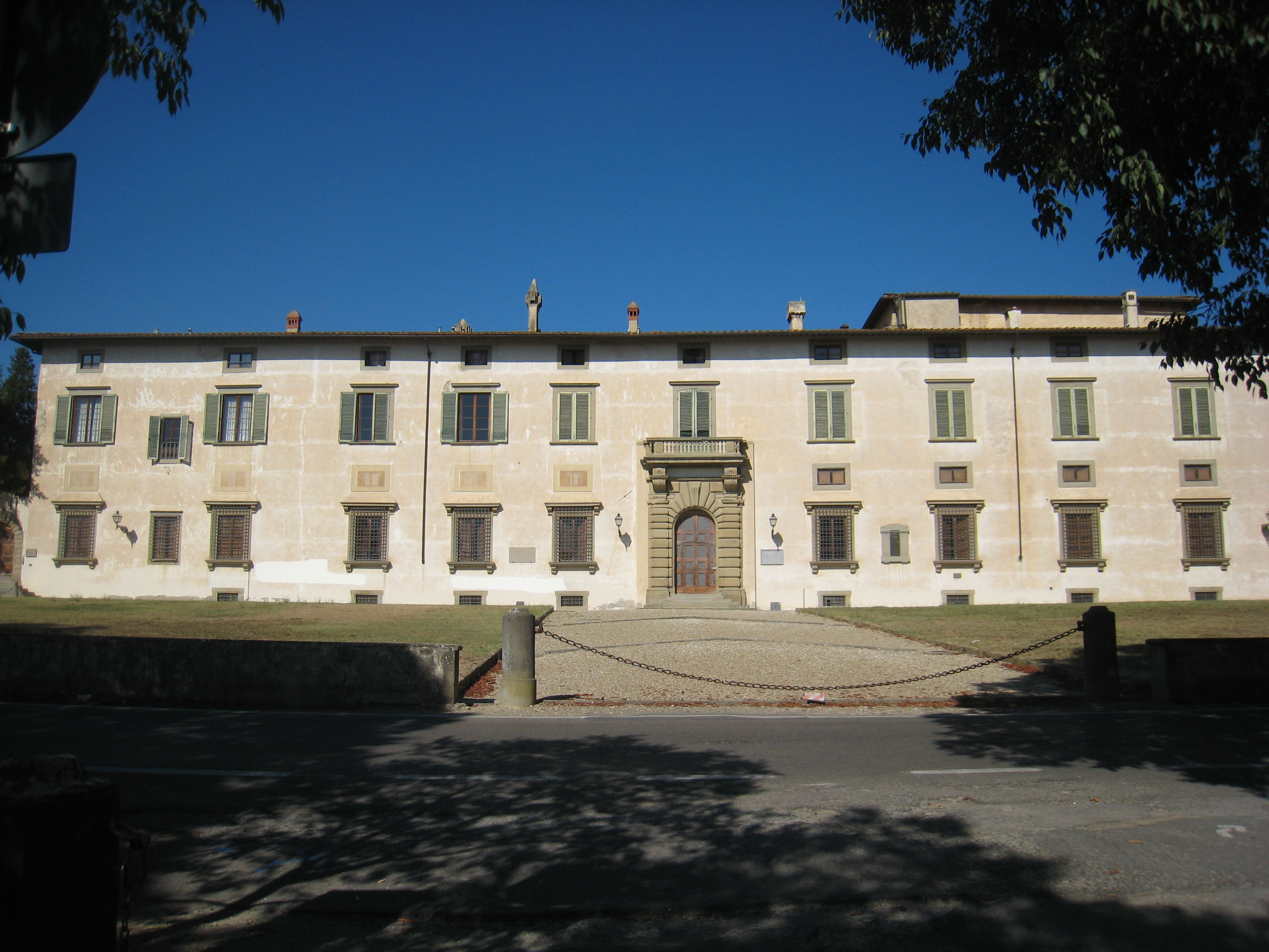 Frontal view of the façade of Villa medicea di Castello